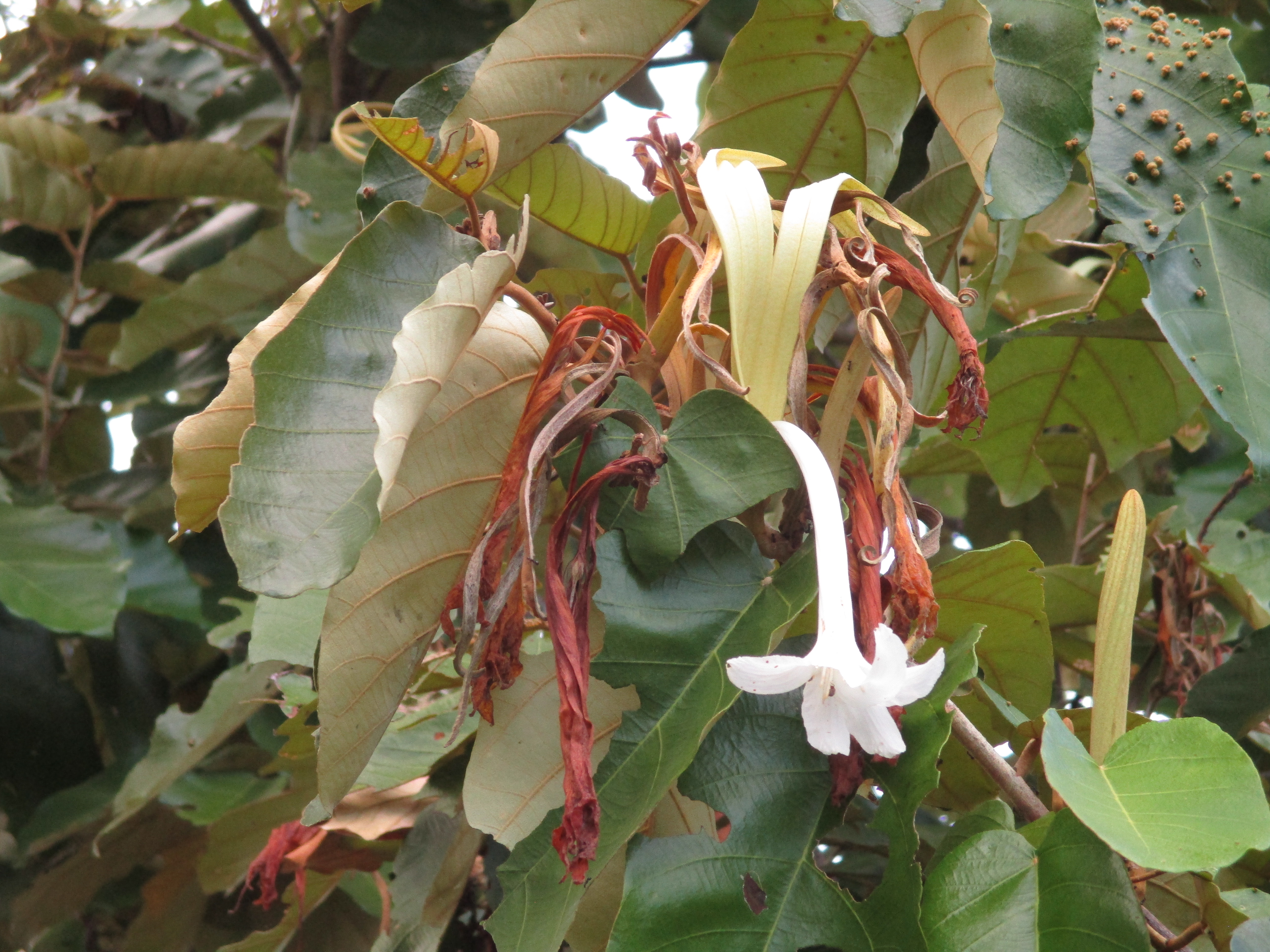 flower of bayur tree (Pterospermum diversifolium), northern Buton Island, Indonesia